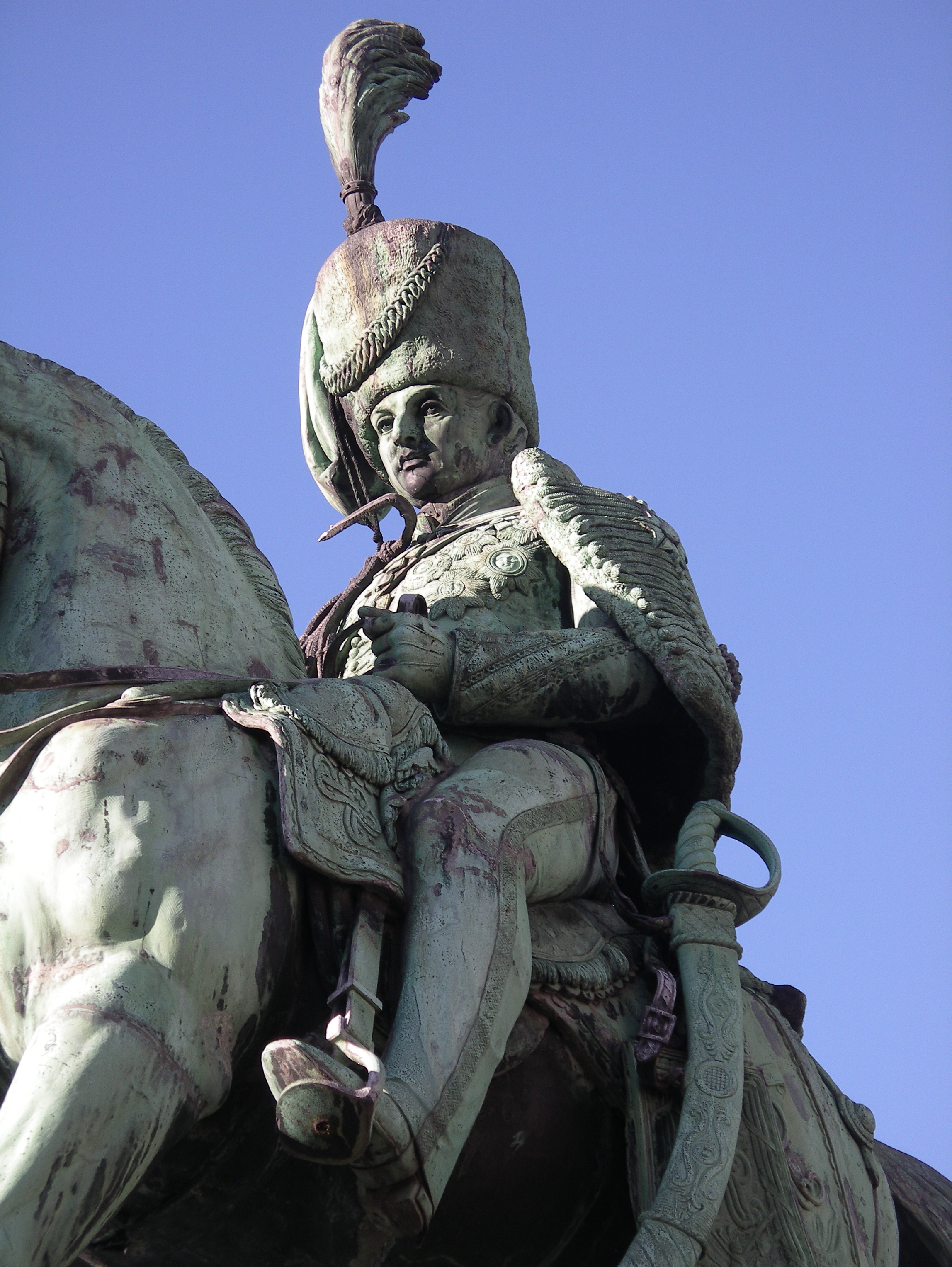 A photograph of Charles Stewart, 3rd Marquess of Londonderry